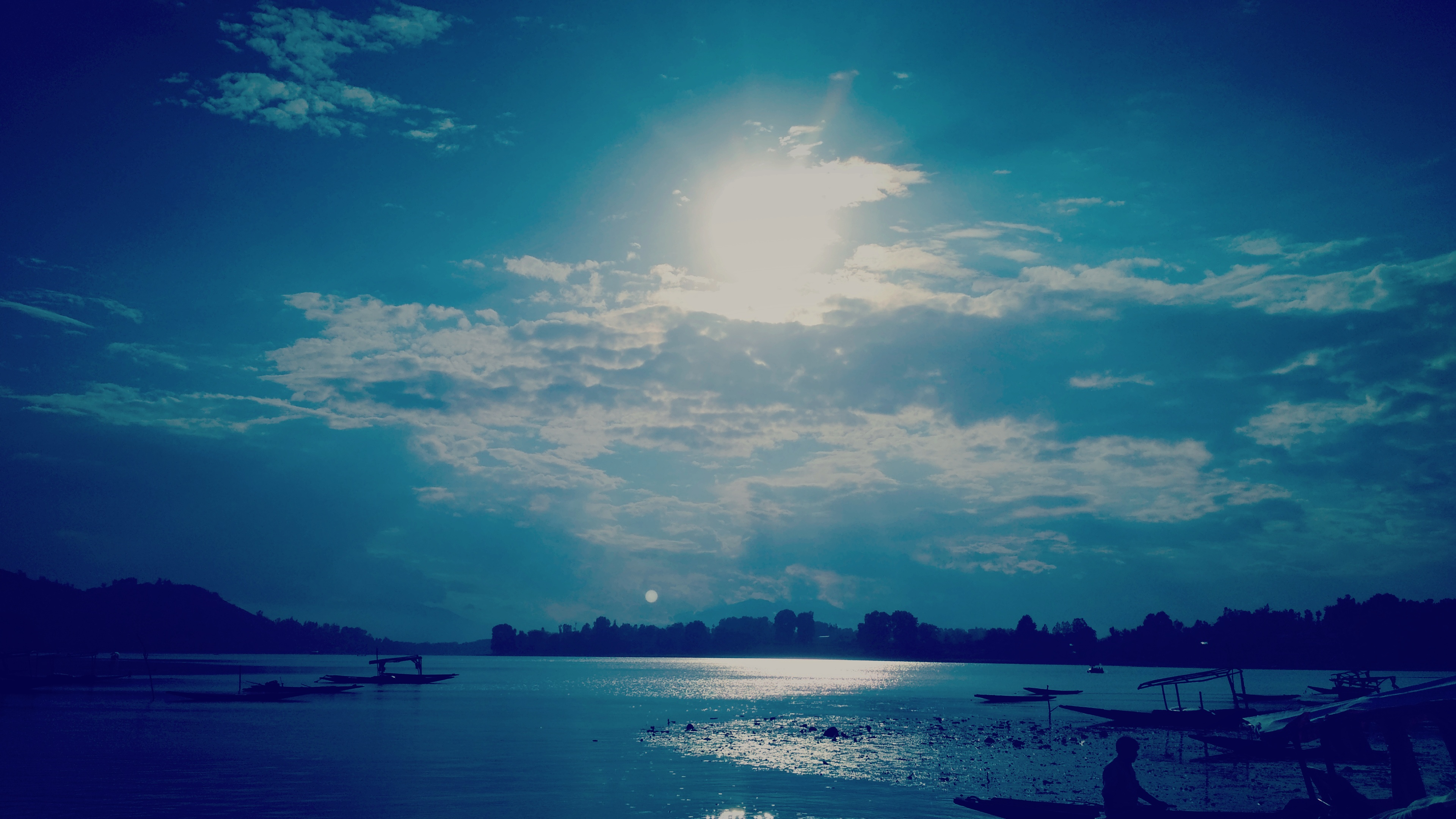 Caption